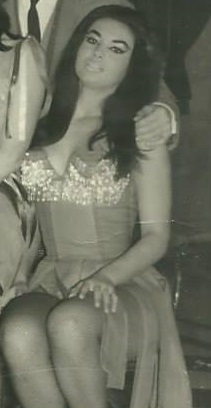 Julia Alson-vedette argentina